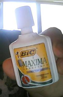 correction fluid